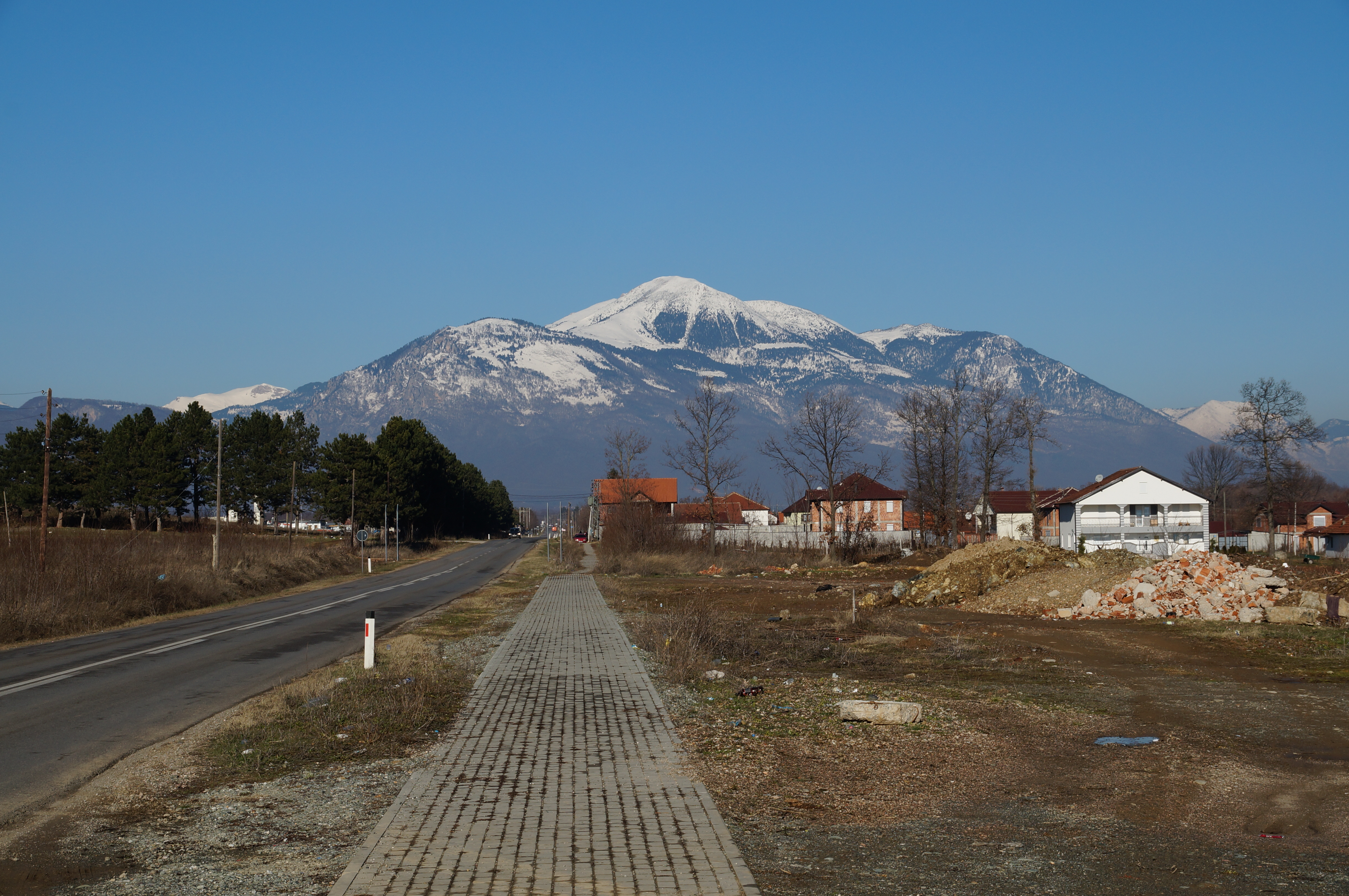 Maja e Strellcit (2377 m) in the Kosovar part of the Albanian Alps